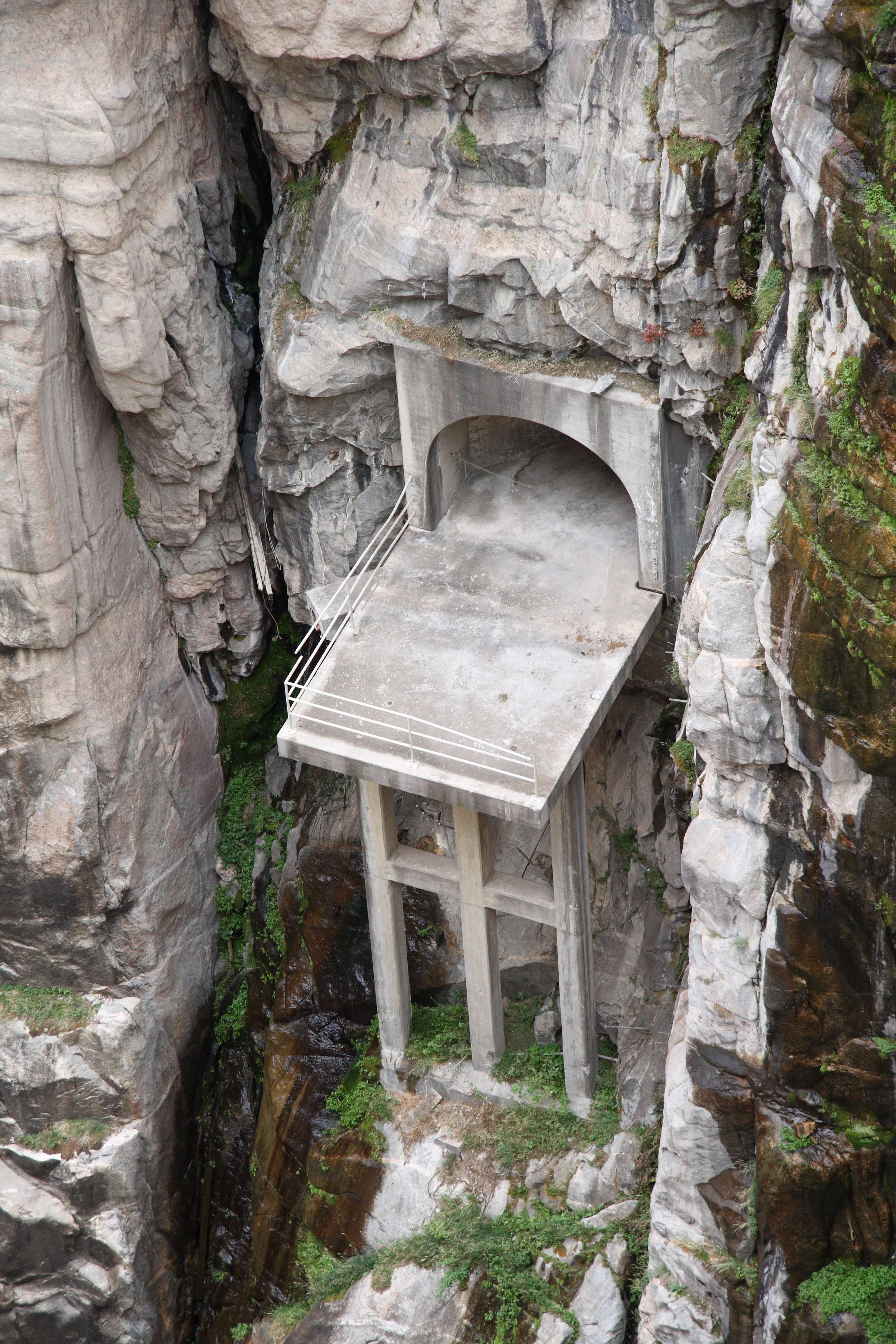 Diversion tunnel outlet, Buffalo Bill Dam, Wyoming